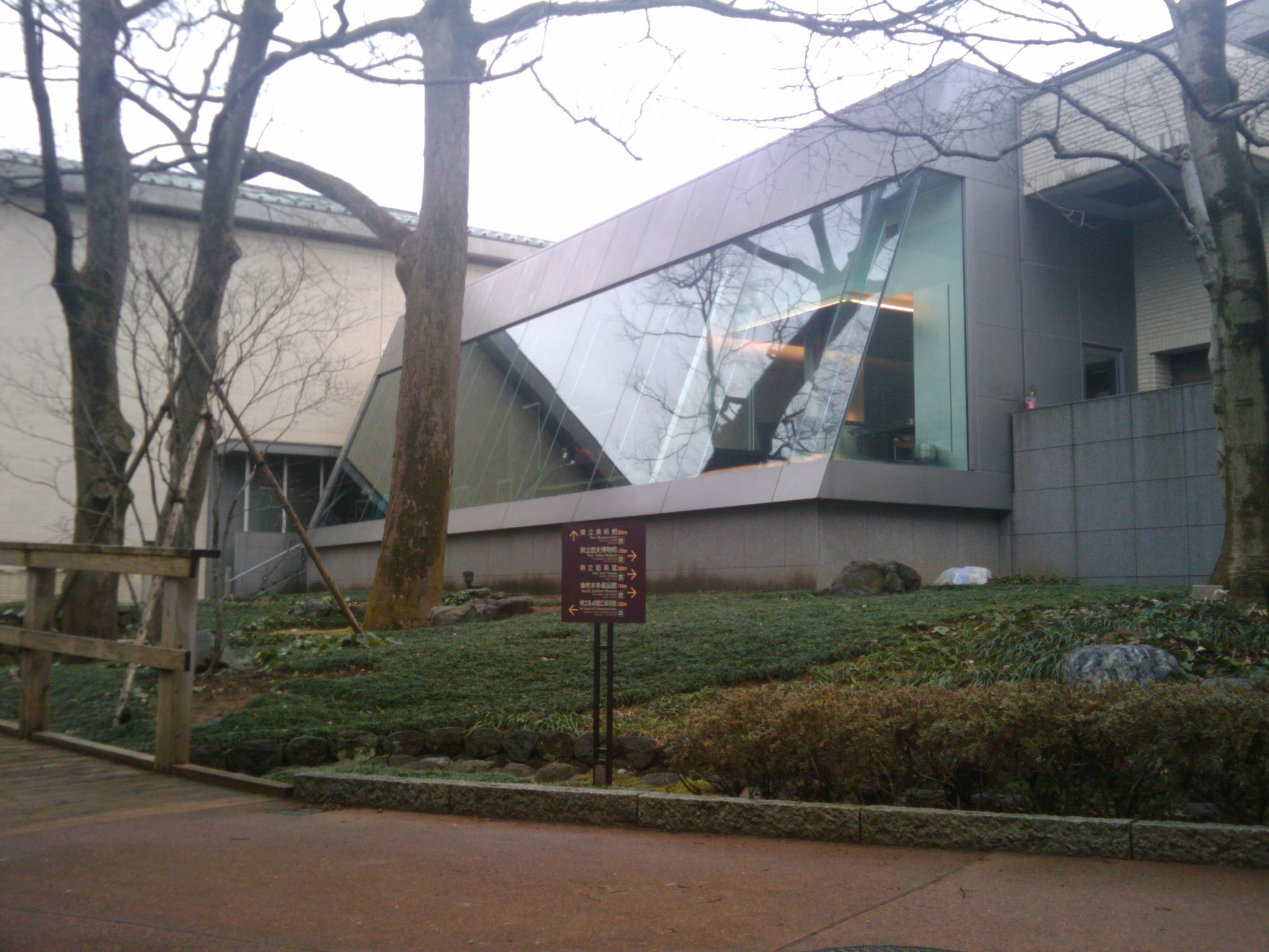 Ishikawa Prefectural Museum of Art (cafe side)